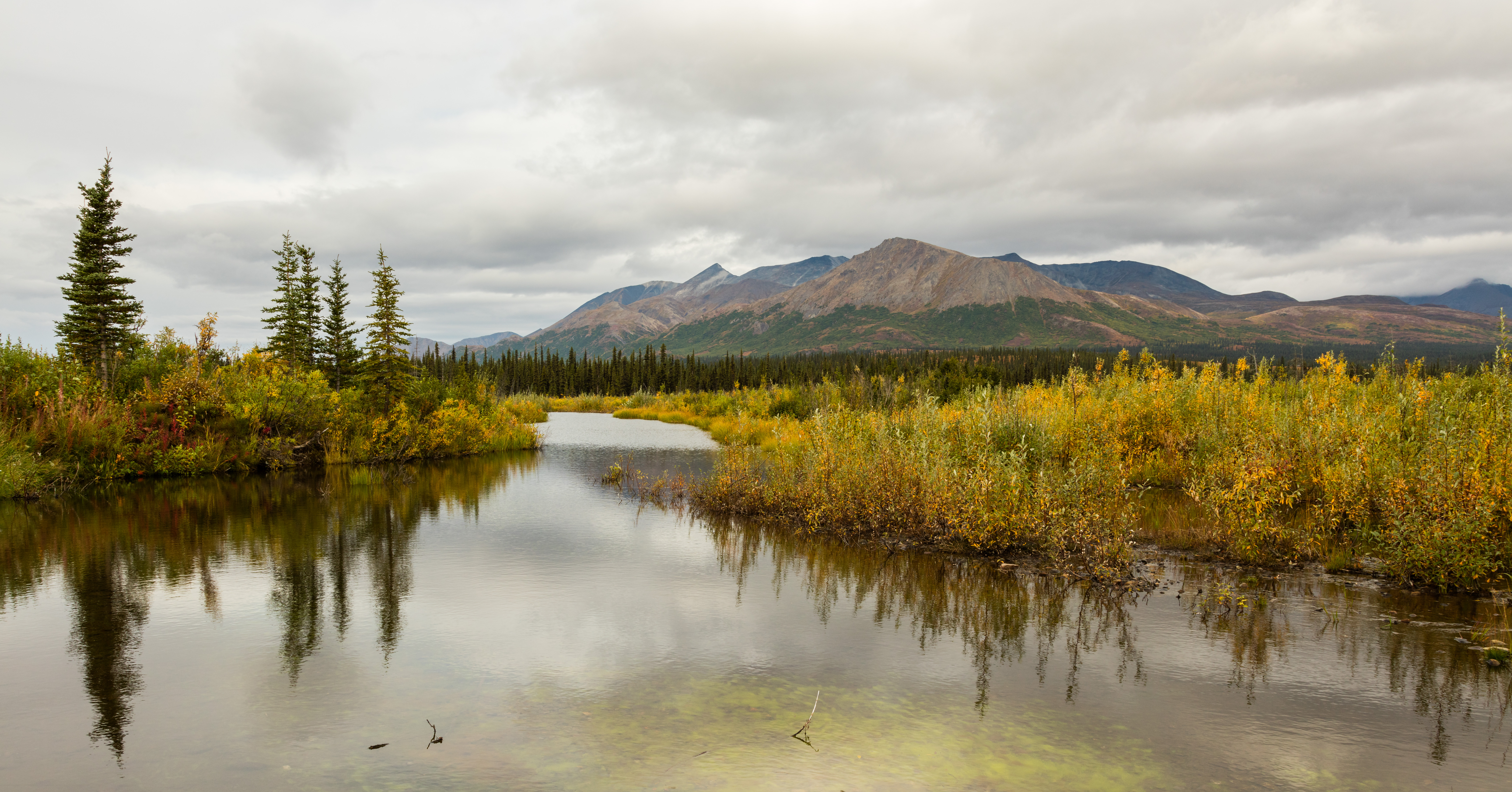 Affluent of Nenana River, McKinley Park, Alaska, United States